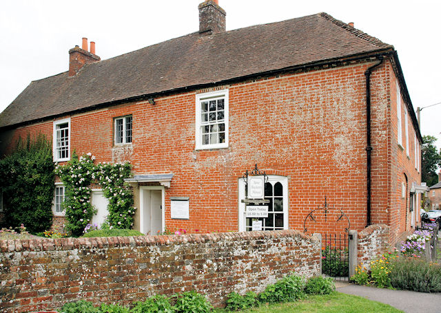 Jane Austen's House, Chawton Seen from the south.